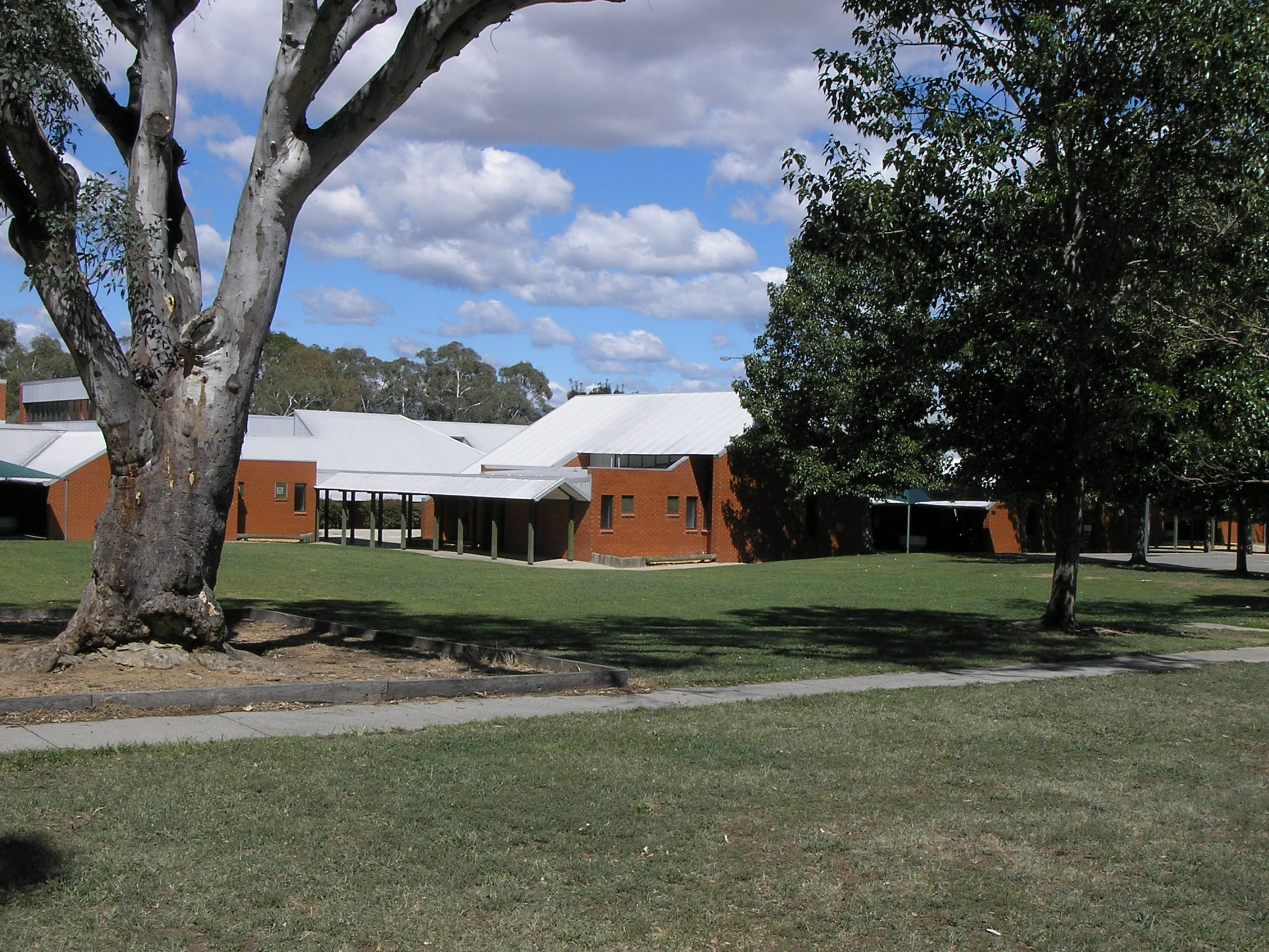 Gowrie Primary School, Gowrie, A.C.T. This image was created on 26 Feb. 2006 by W. A. Burdett